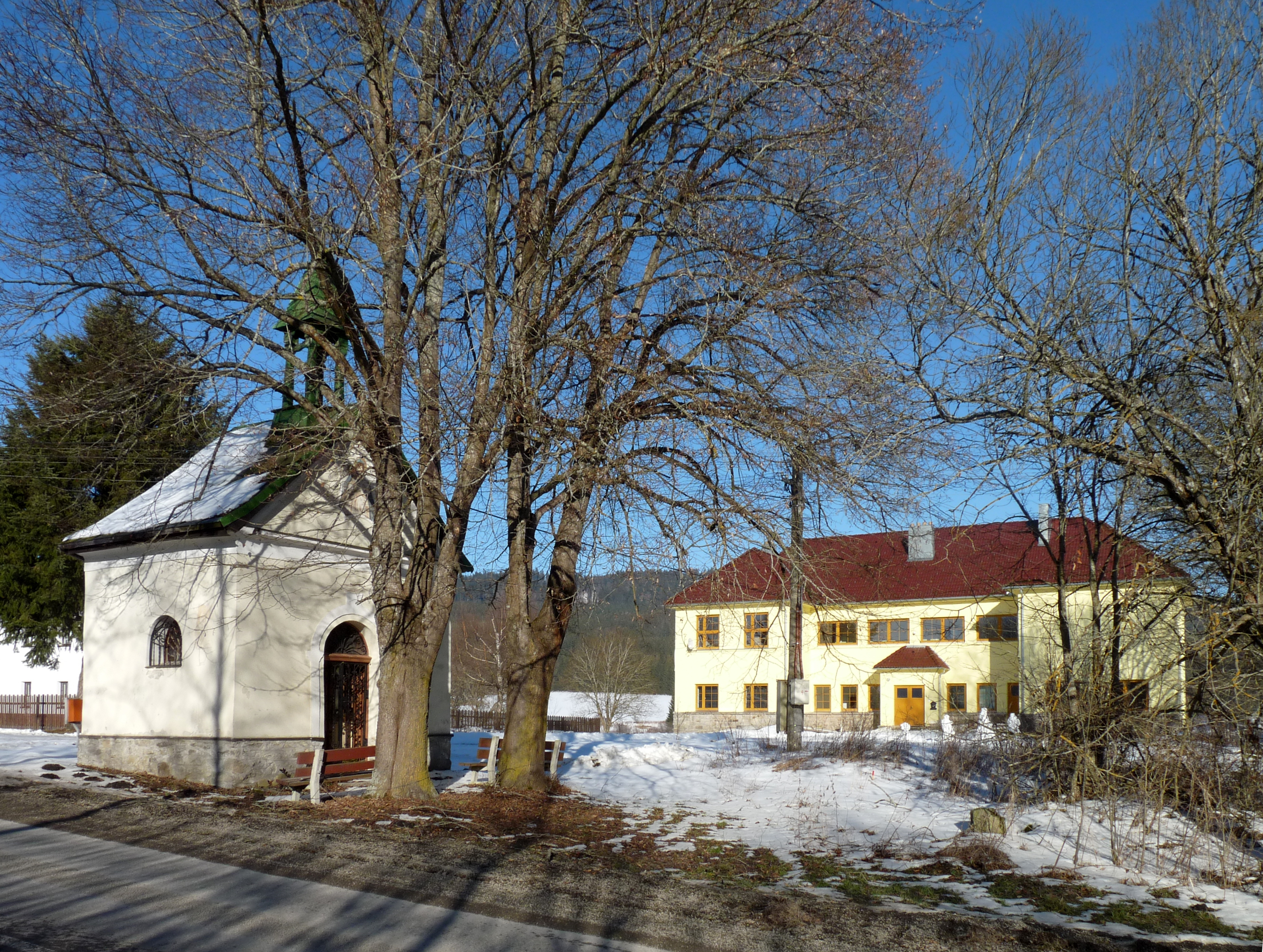 Chapel at house No 79 in the village of Chlum, part of the town of Volary, Prachatice District, South Bohemian Region, Czech Republic.